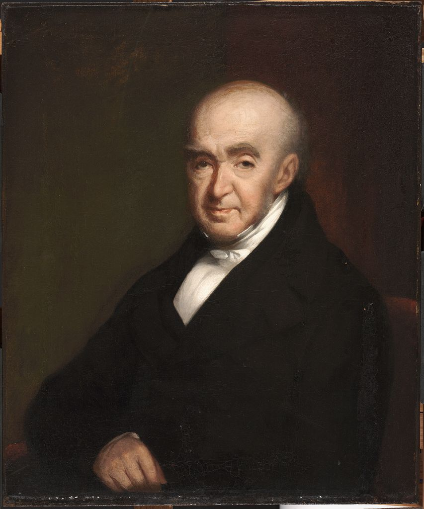 Samuel Rogers (1763 - 1855)